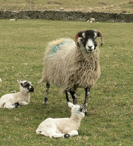 A Swaledale breed ewe and her twins in North Yorkshire.